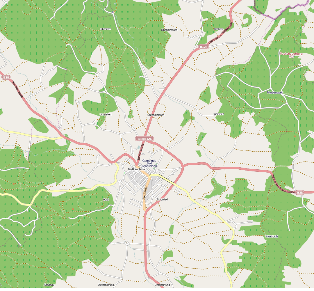 Street Map of Bad Leonfelden - from Open Street Map